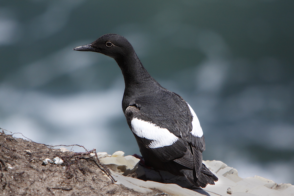 Pigeon Guillemot Cepphus columba in breeding plumage, Monterey Bay, California.